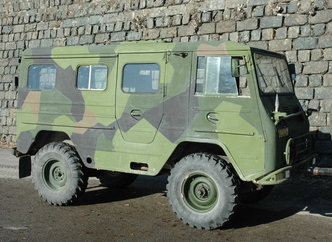 The Volvo L3314, Swedish military designation Personlastterrängbil 903. The Radiopersonterrängbil 9033 was the communications and command version. It had a different electrical system (24 V) compared to the 903, a 2.15 meter antenna on the roof and various mounts for extra antennas.